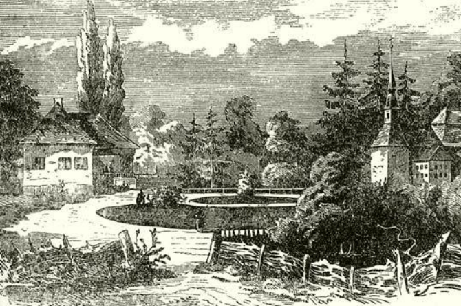 Jósika Miklós (1794-1865) kastélya Szurdukon, Szilágy megyében. Forrás (kép): kisskaroly.ro/Volum final 10.pdf 360.old. Hozzáférés: 2020.05.10